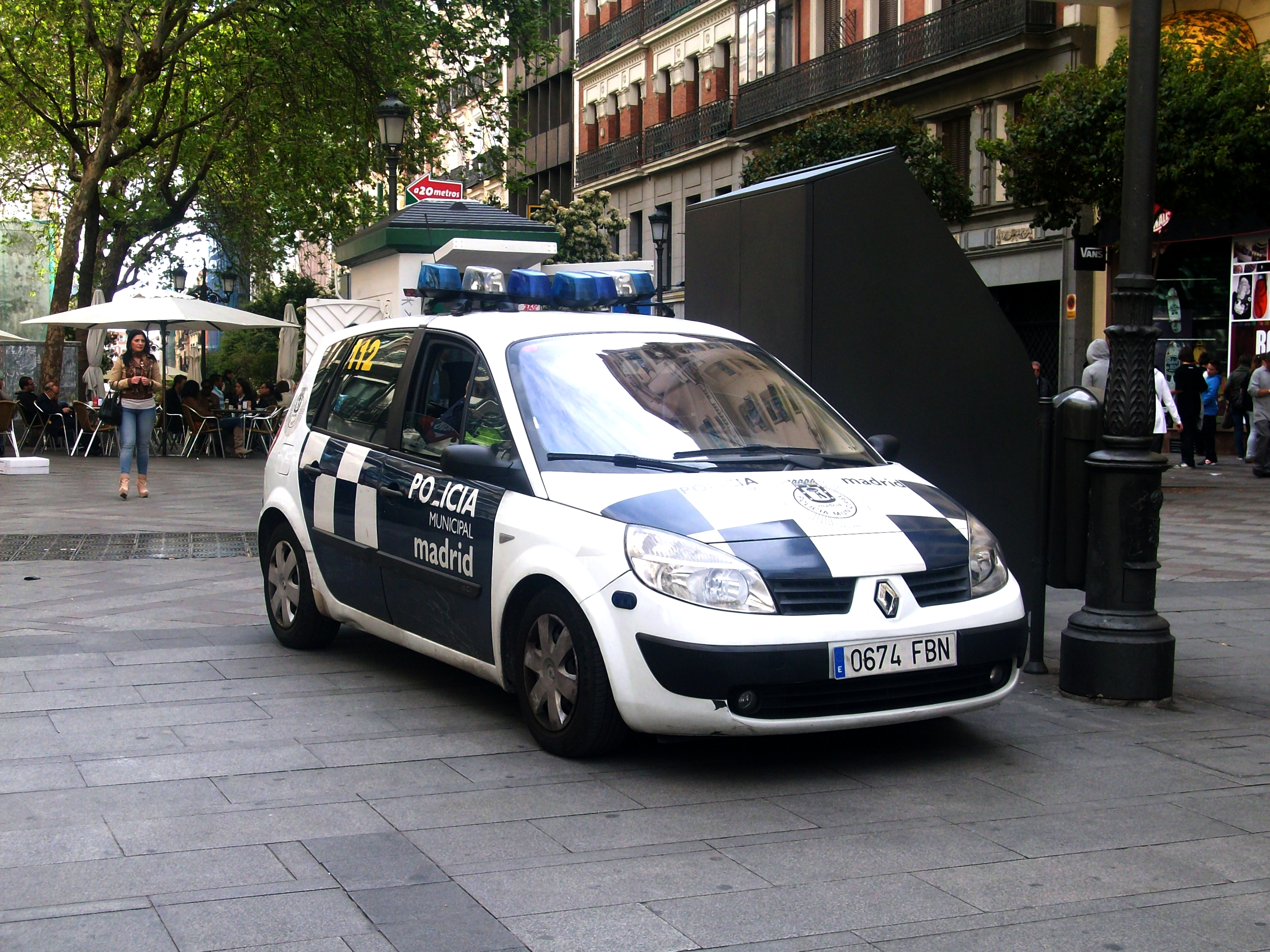 Vehicle of the Policía Municipal de Madrid